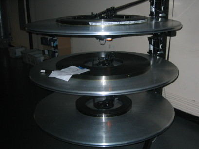 35mm Film on Platters, Ready for Projection!